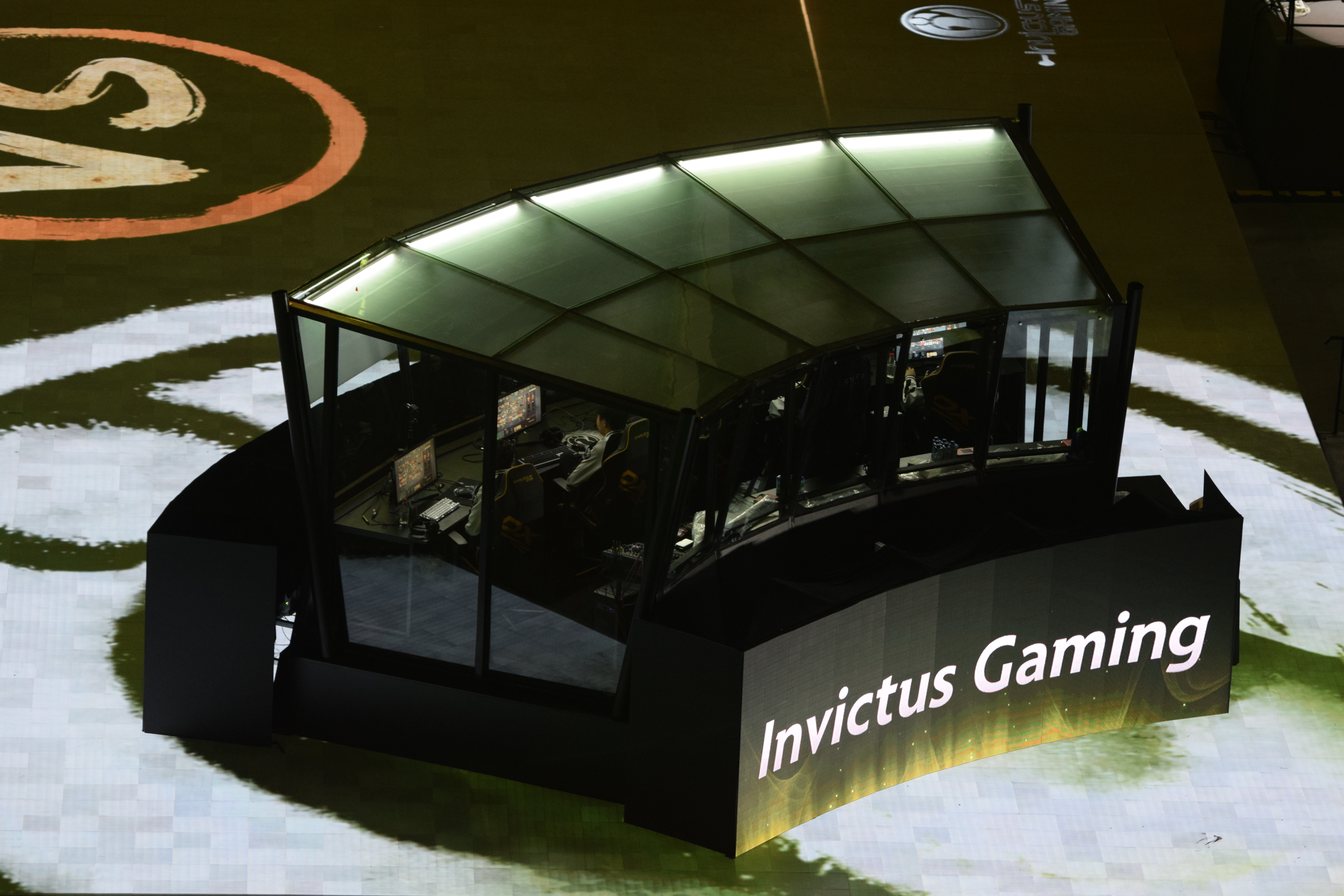 Invictus Gaming